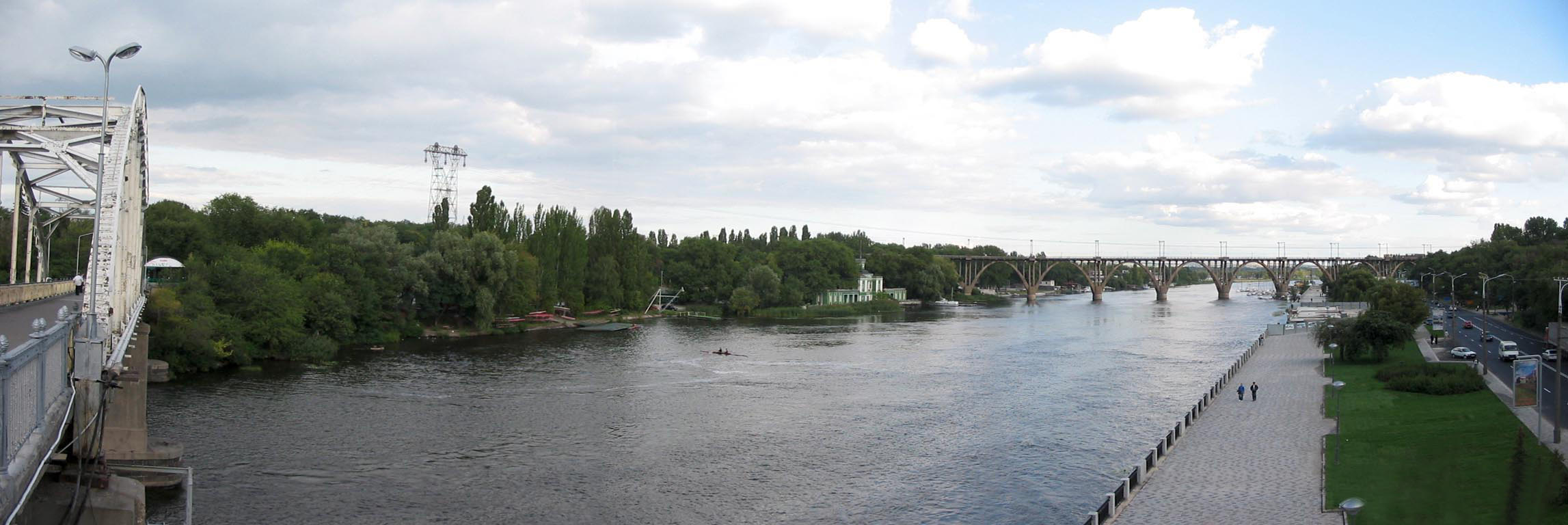 The Dnipro River in Dnipro, Ukraine.